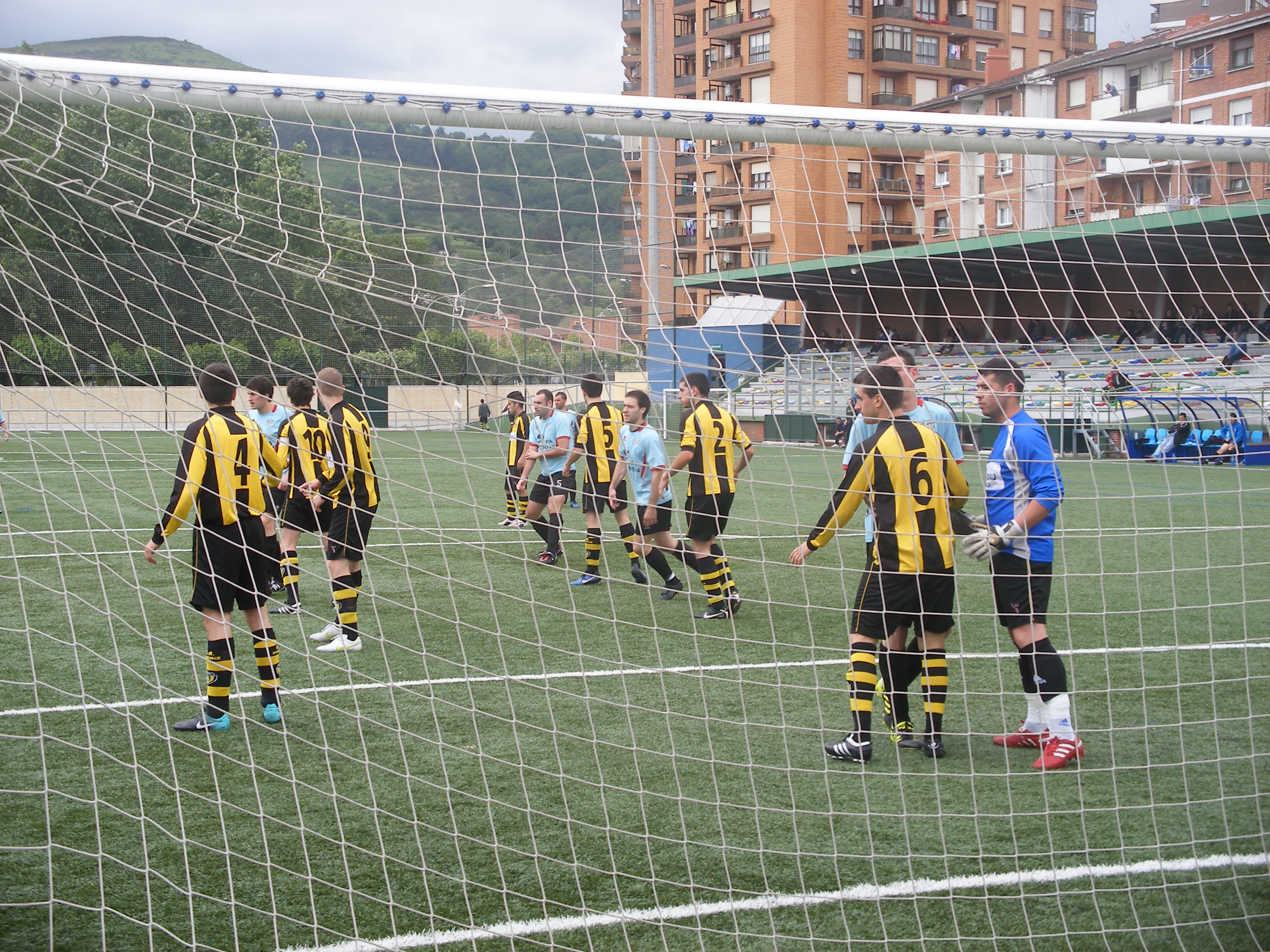 Basconia B v Uritarra at Soloarte, Basauri